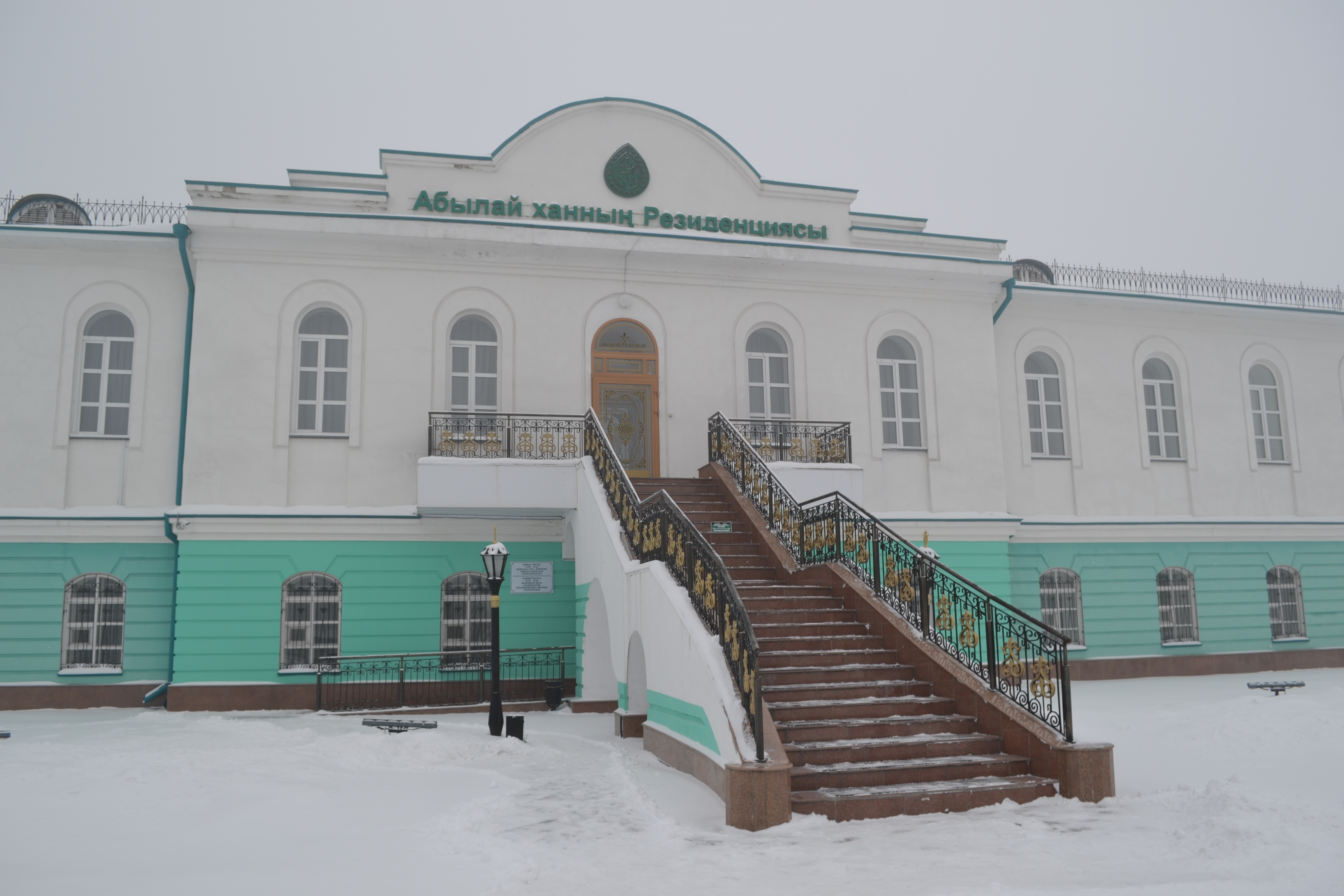 Abylay Khan Residence